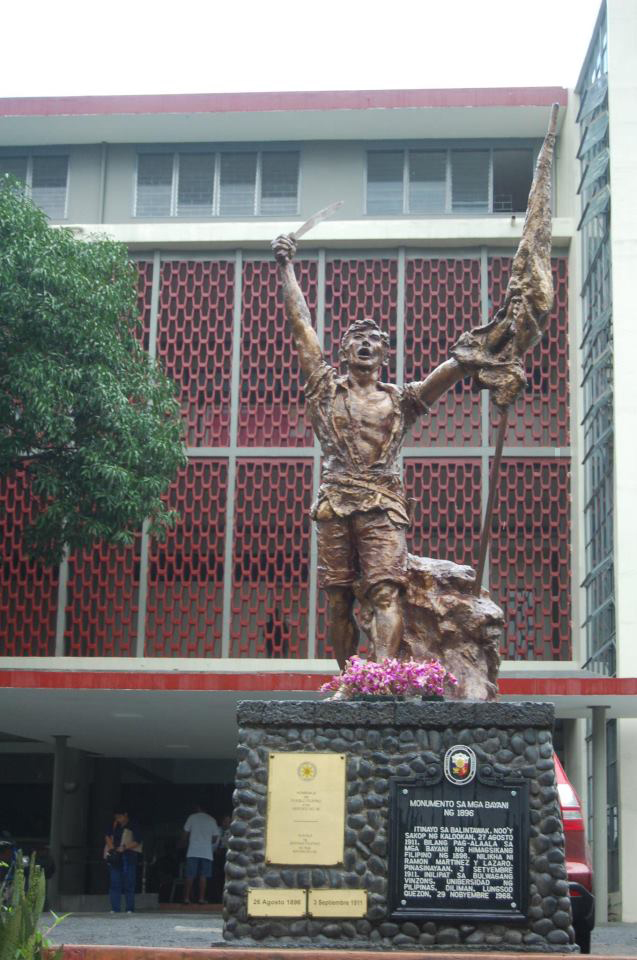 Monument to the 1896 Revolution, first built on September 3, 1911.